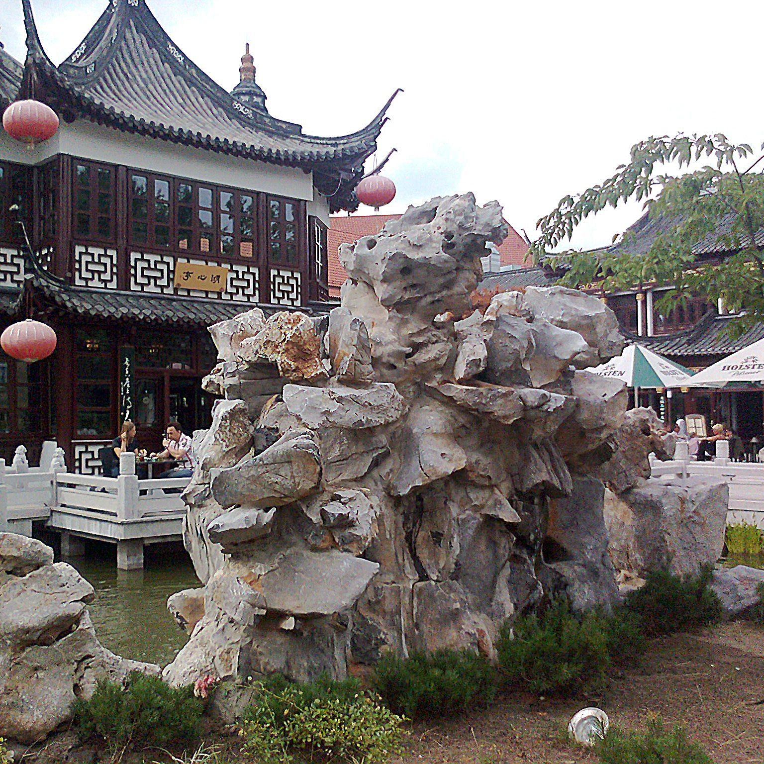 Taihu stone, Hamburg